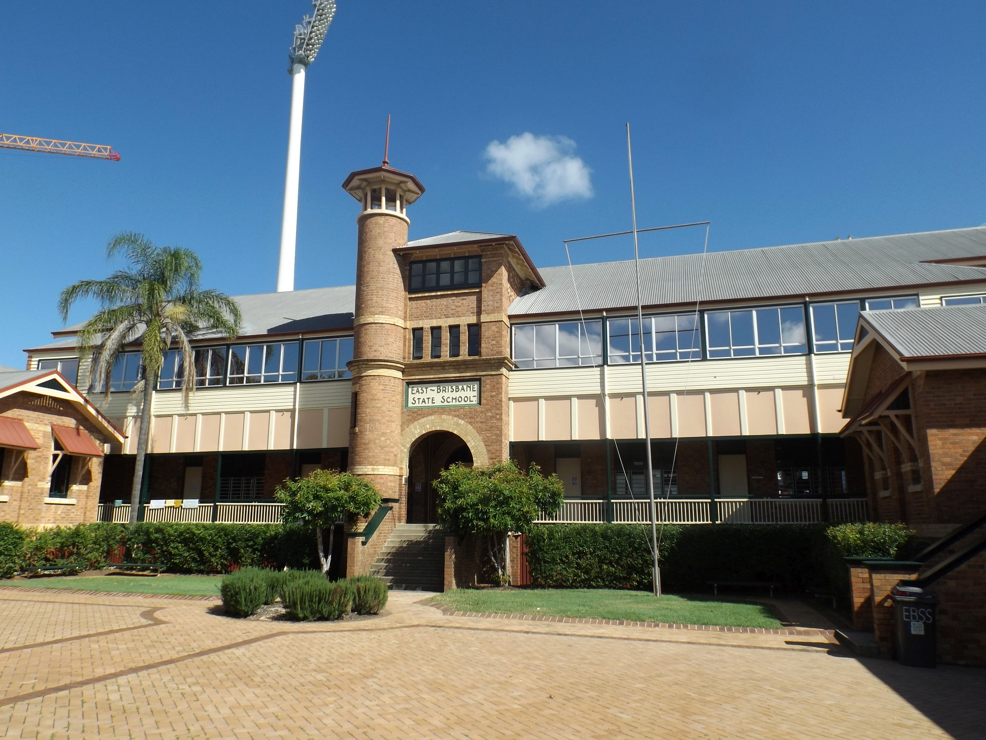 Photo of East Brisbane State School at East Brisbane, Brisbane, Queensland, Australia.